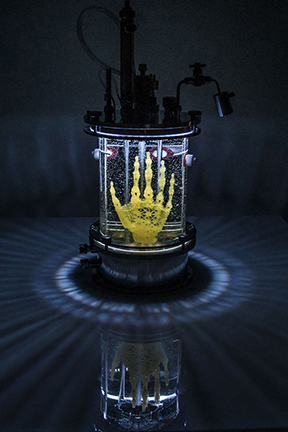 "REGENERATIVE RELIQUARY" by Amy Karle, 2016 bioart sculpture of hand design 3D printed / bioprinted on microscopic level in trabecular structure out of pegda hydrogel to create scaffold for human MSC stem cell culture into bone.